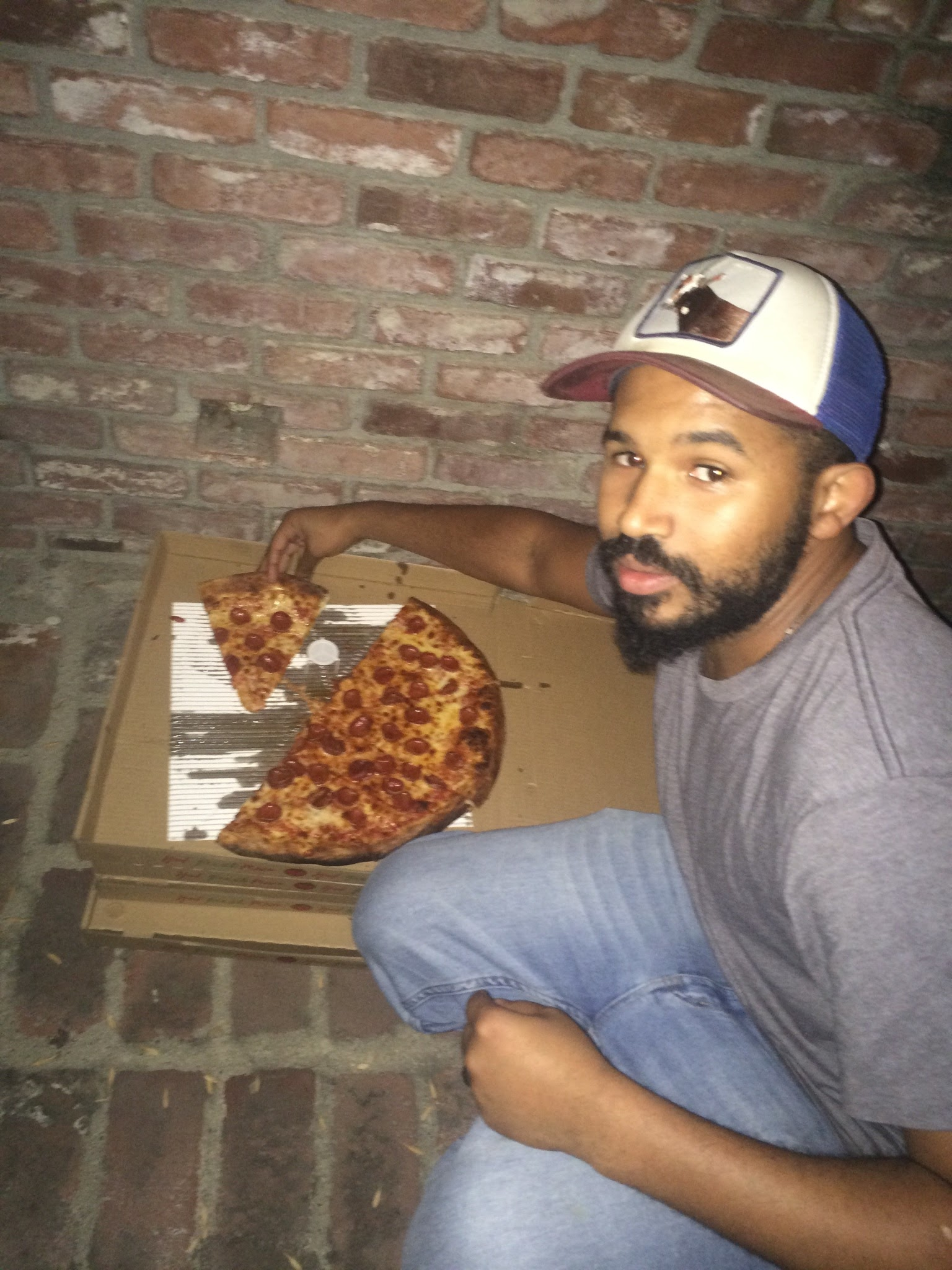 Producer and songwriter Ammo eating pizza